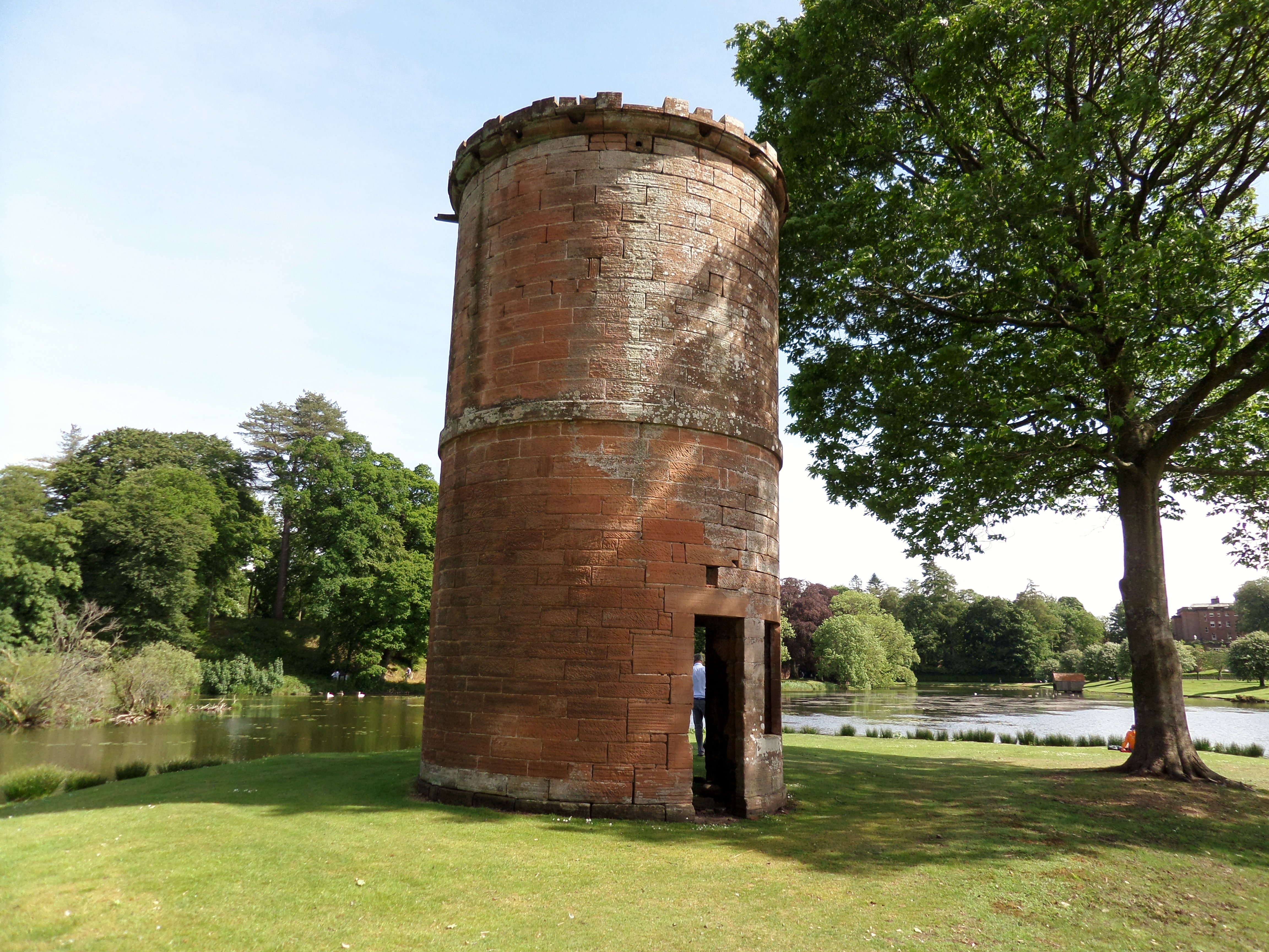 Dalswinton Tower ruins, Dumfries and Galloway, Scotland. 'Z-shaped' castle. A tower used as a folly - entrance.